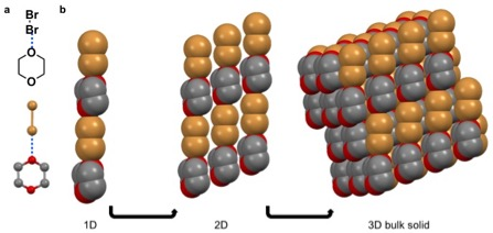 Halogen bonding highlighted in bromine dioxane crystal. Depiction of how intermolecular interactions give rise to ordering of the compound in three dimensions.